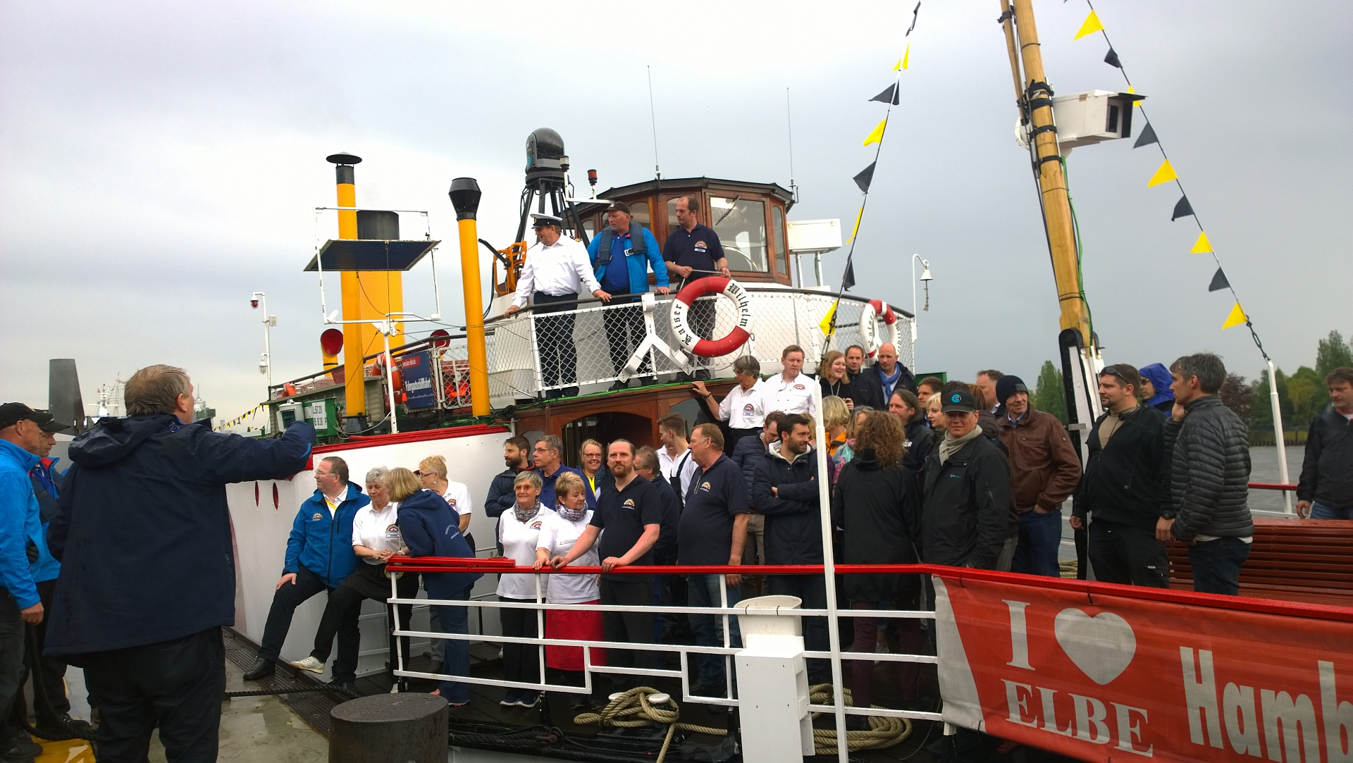 Paddle wheel steamer Kaiser Wilhelm during a visit to Hamburg at the Landungsbrücken, May 2017